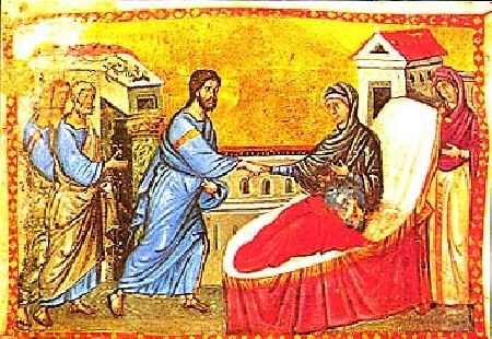 Healing Peter's Mother-in-law, from a 13th century manuscript from the Athos monasteries